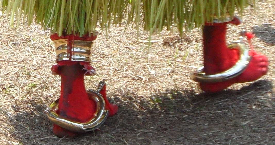 Chilambu